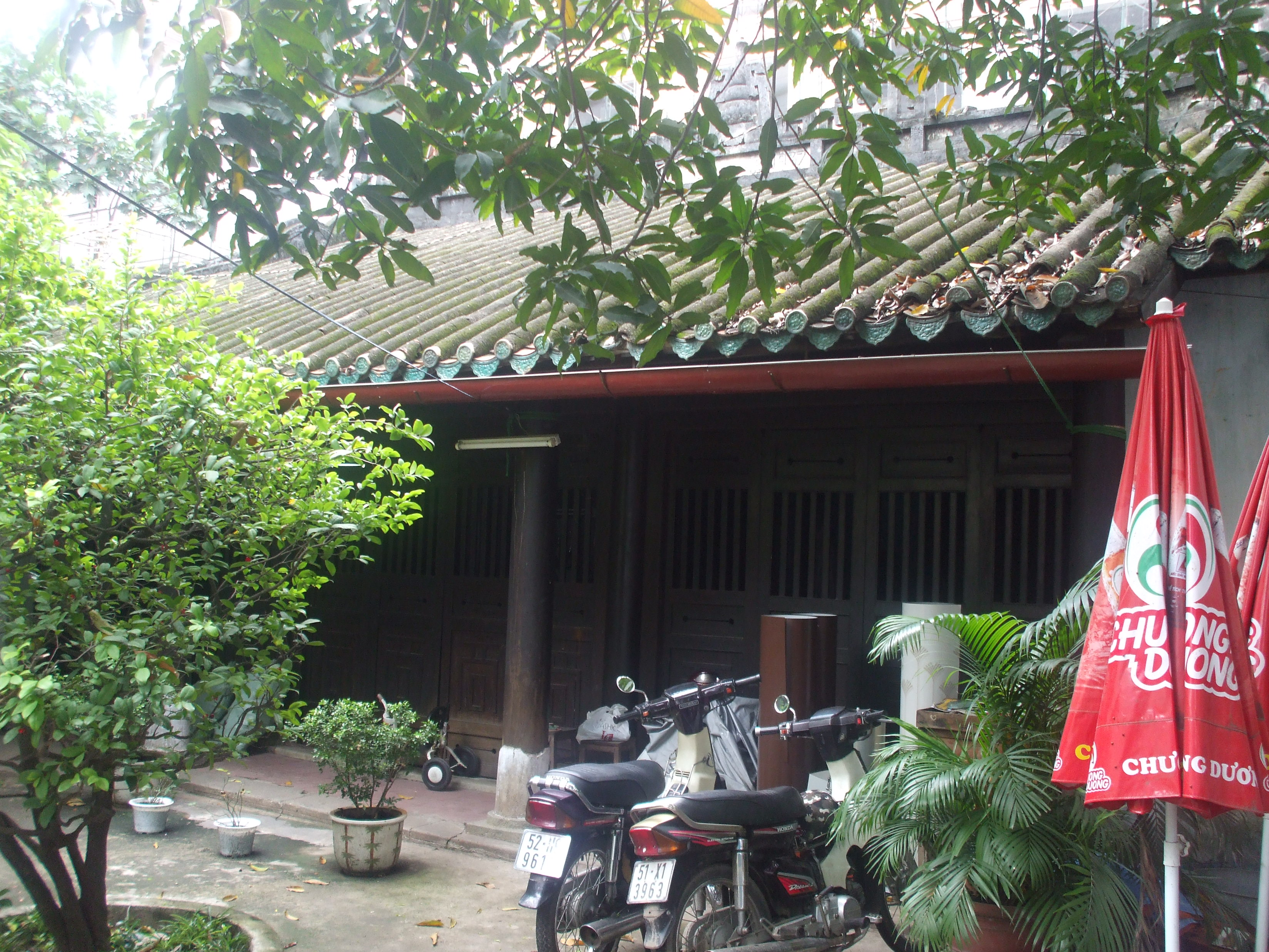 Old house of scientist Truong Vinh Ky in Cho Quan, Ho Chi Minh City